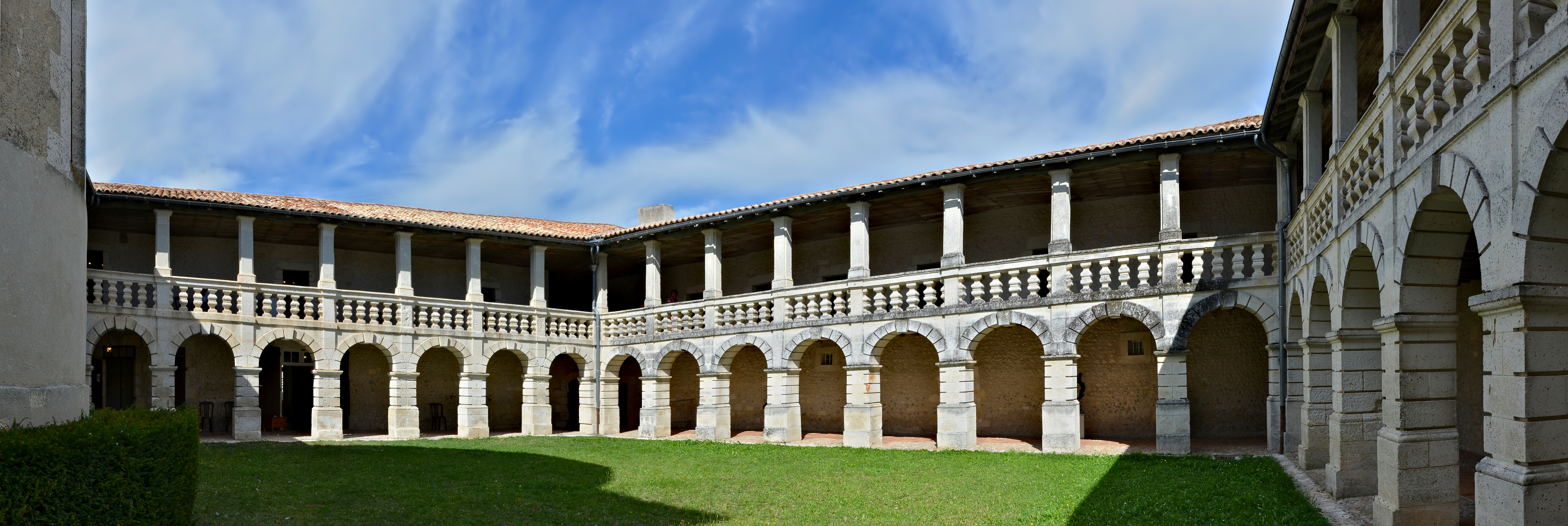 Cloister of Chalais (17th century) as seen from SSE, Charente, France. .